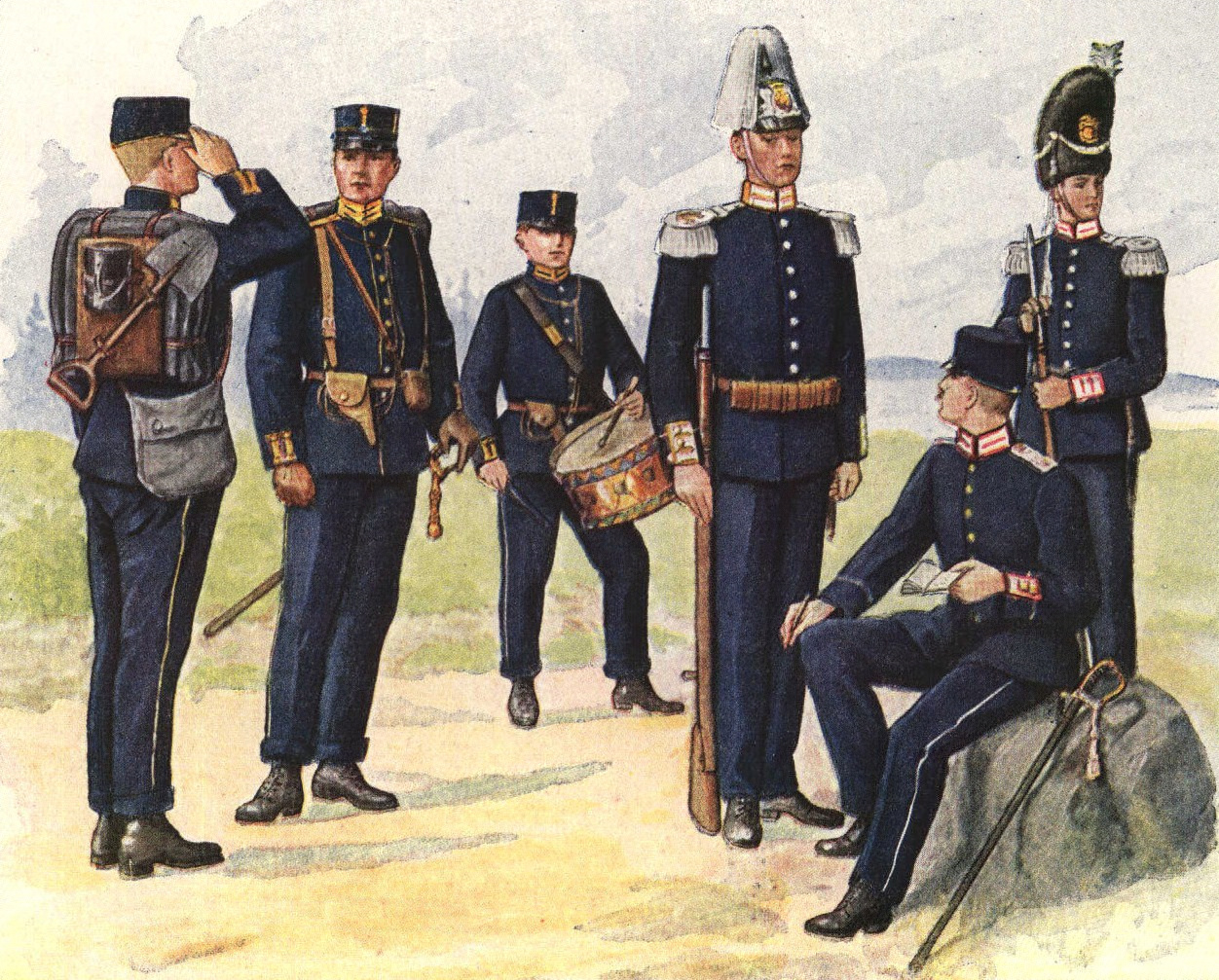 Uniforms of the Swedish army M 1886, Infantry.